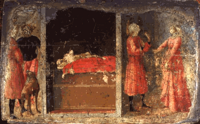 On his return from hunting, betrayed by the devil, Saint Julian believes to find his wife with a lover instead of his visiting parents and beheads them.